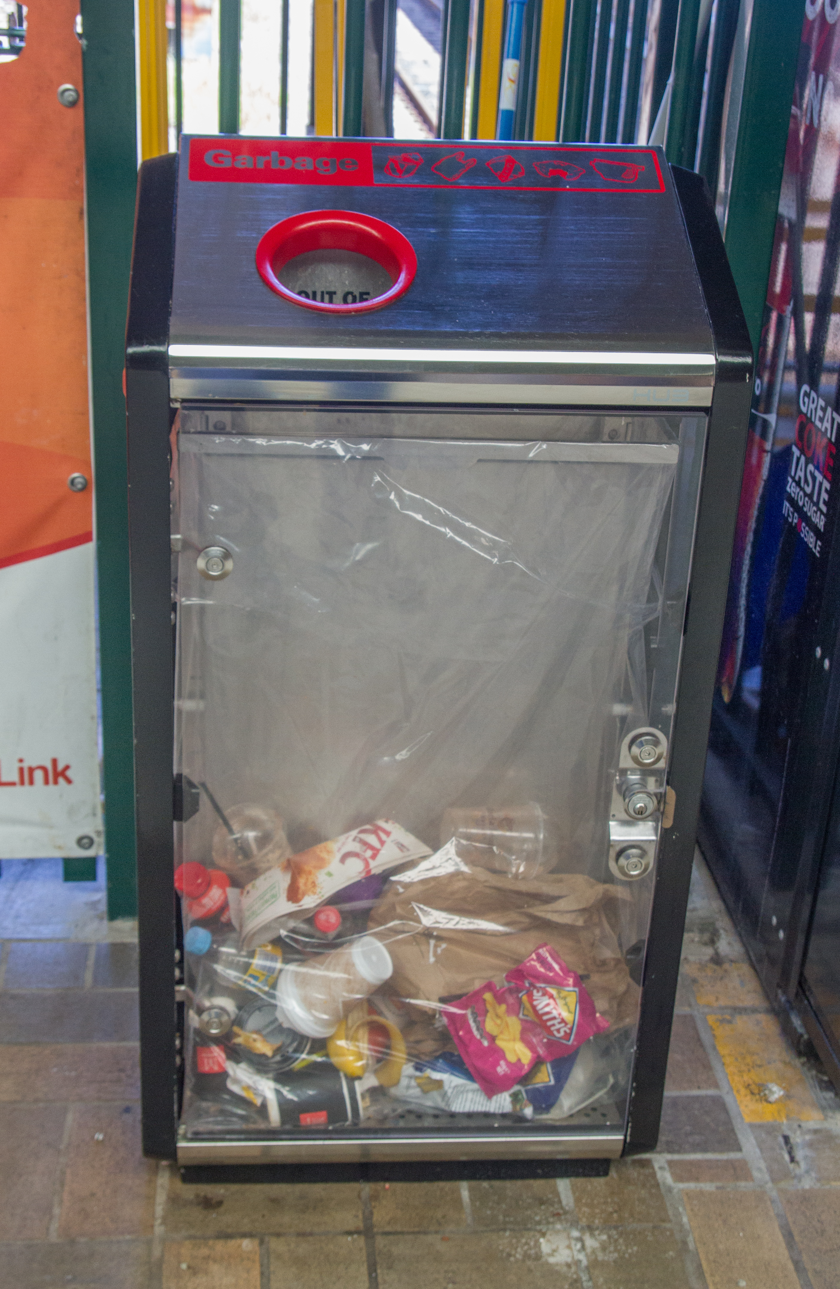 Transparent garbage bins at Central station